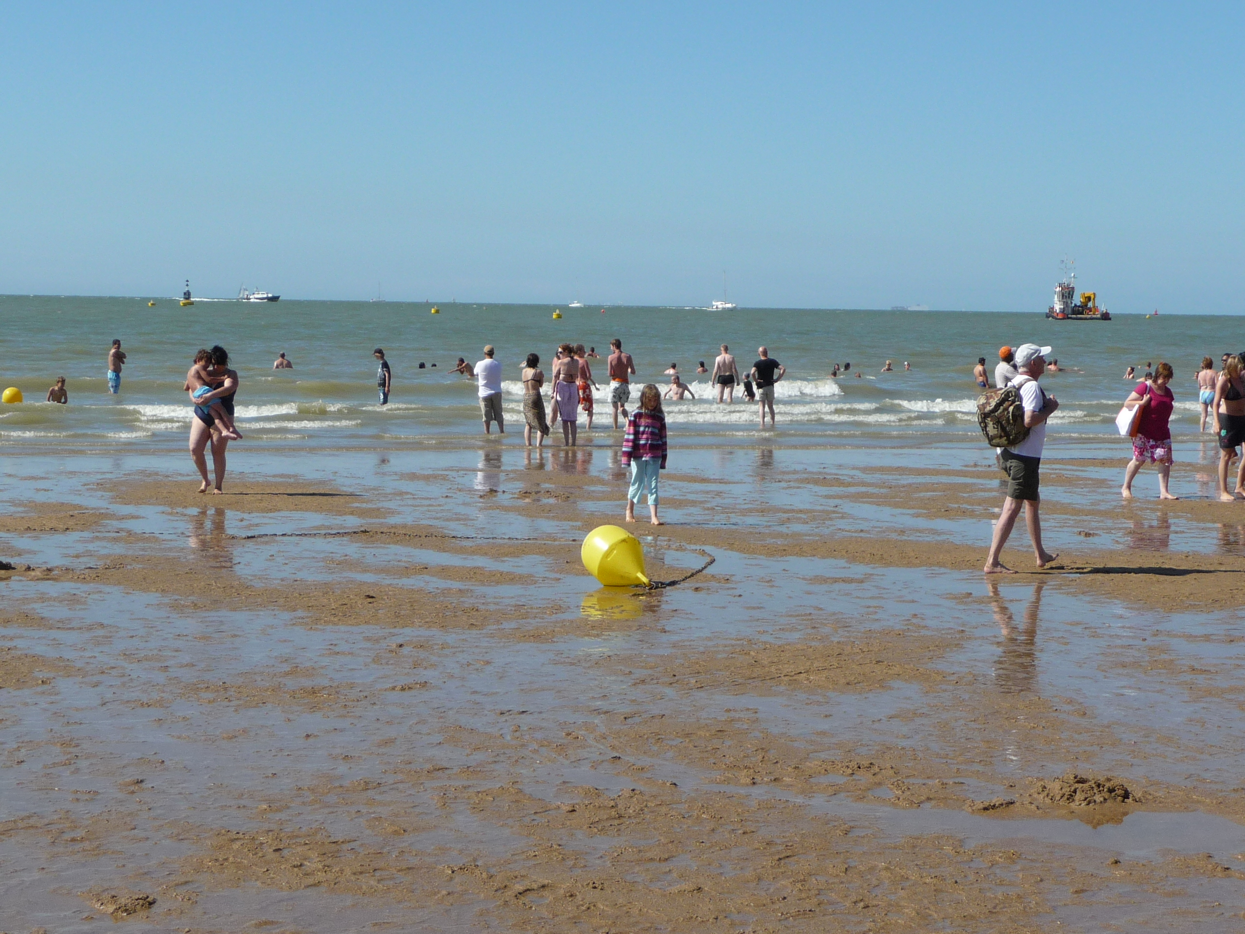 Beach of Morecambe